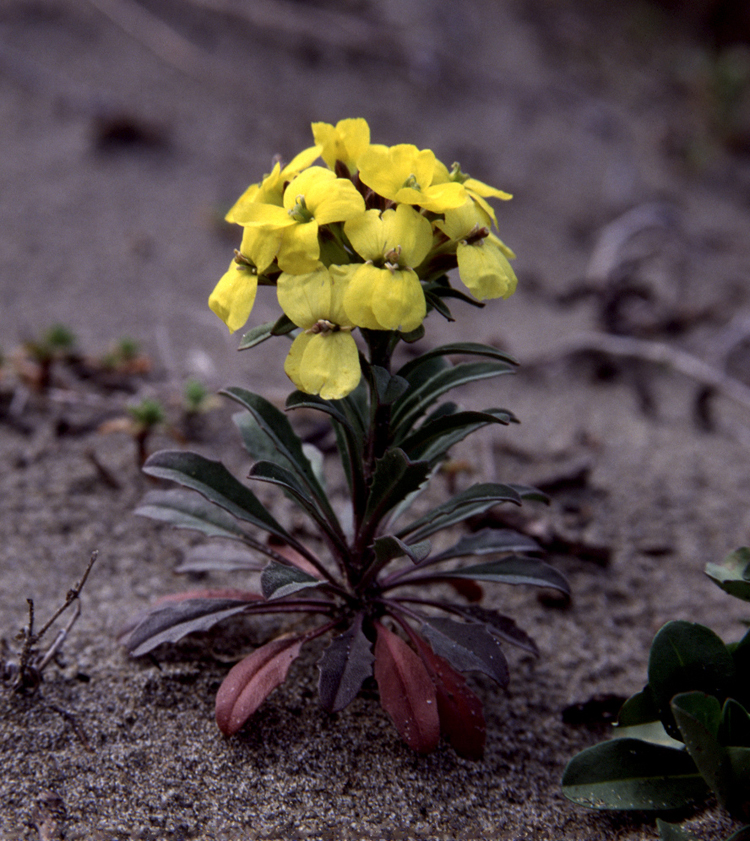 Erysimum menziesii ssp. eurekense at Humboldt Bay National Wildlife Refuge Complex, California, USA